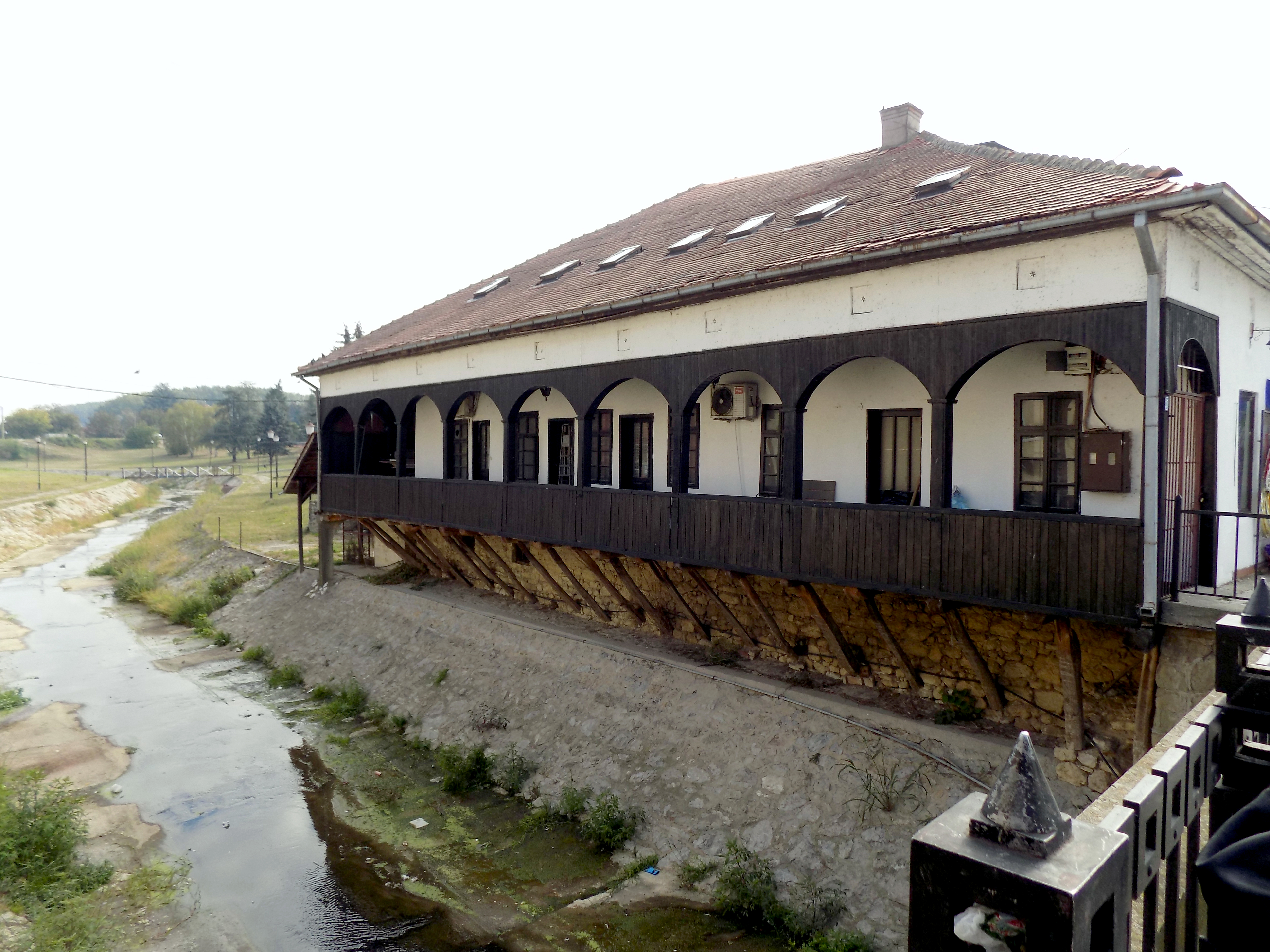 Old house in Grocka's Čaršija (Grocka, a town near Belgrade)